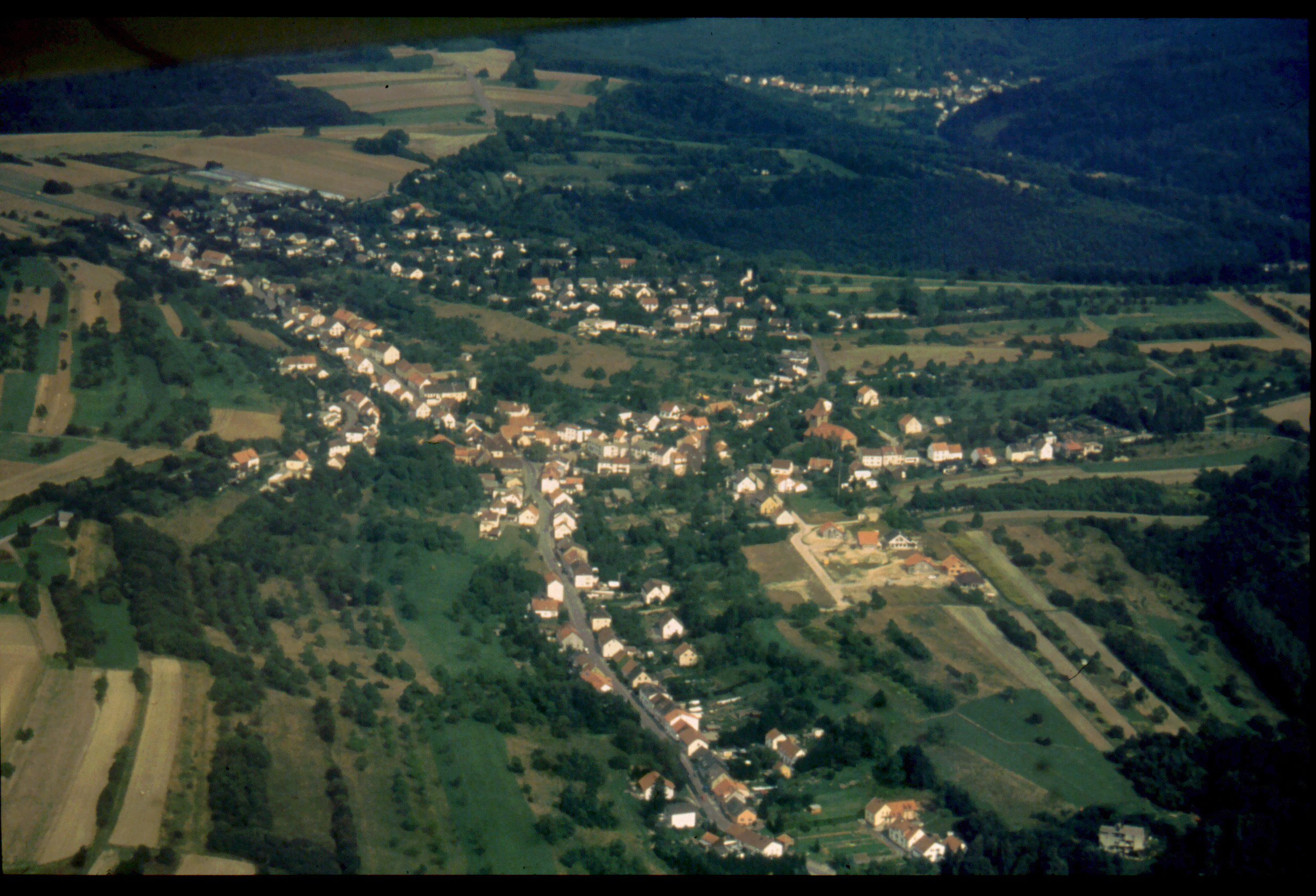 Aerial view of Heckendalheim, taken during the approach to landing at Saarbrücken airport